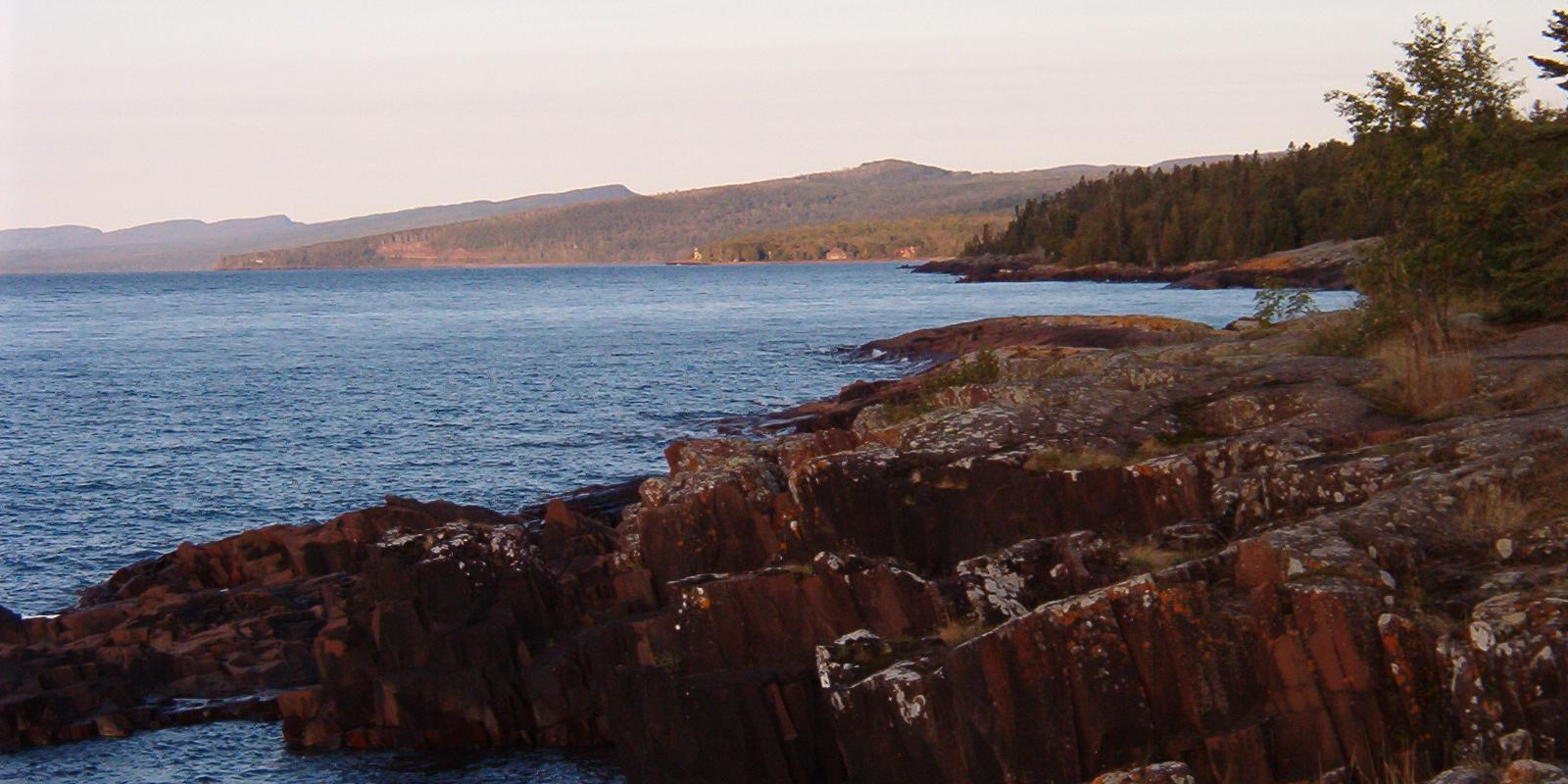 The Sawtooth Mountains in Cook County, Minnesota, USA, taken from the north shore of Lake Superior near the west harbor breakwater in Grand Marais, Minnesota